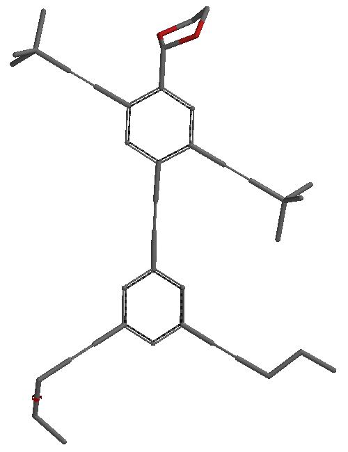 NanoPutian Standing